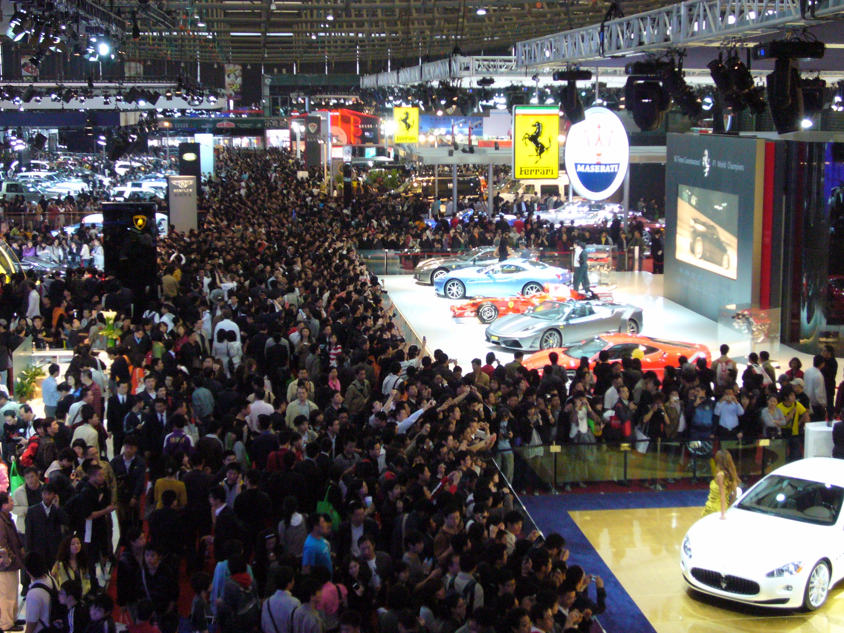 This is the photo of 2009 Shanghai International Auto Show